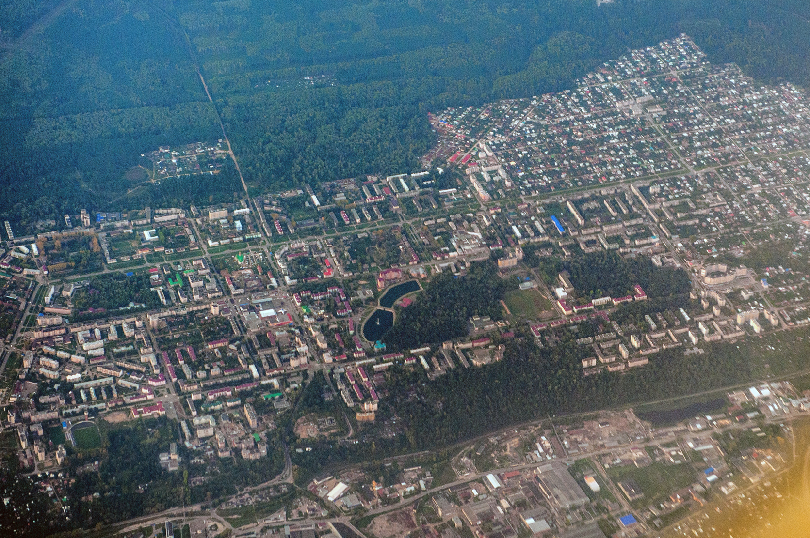 View on the city of Zelenodolsk from an Airplane Kazan-Moscow